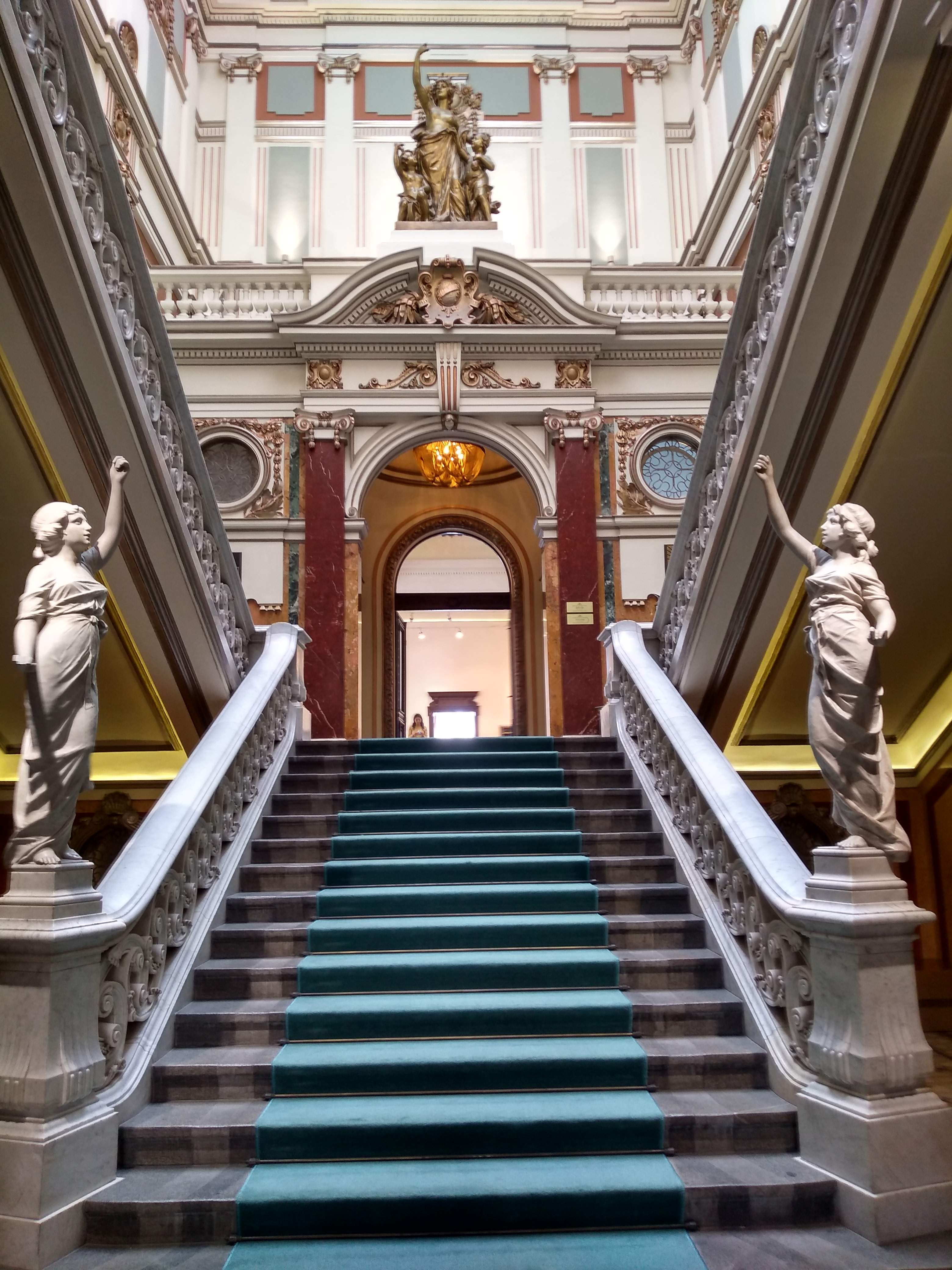 View from the entrance to the staircase and gallery on the second floor